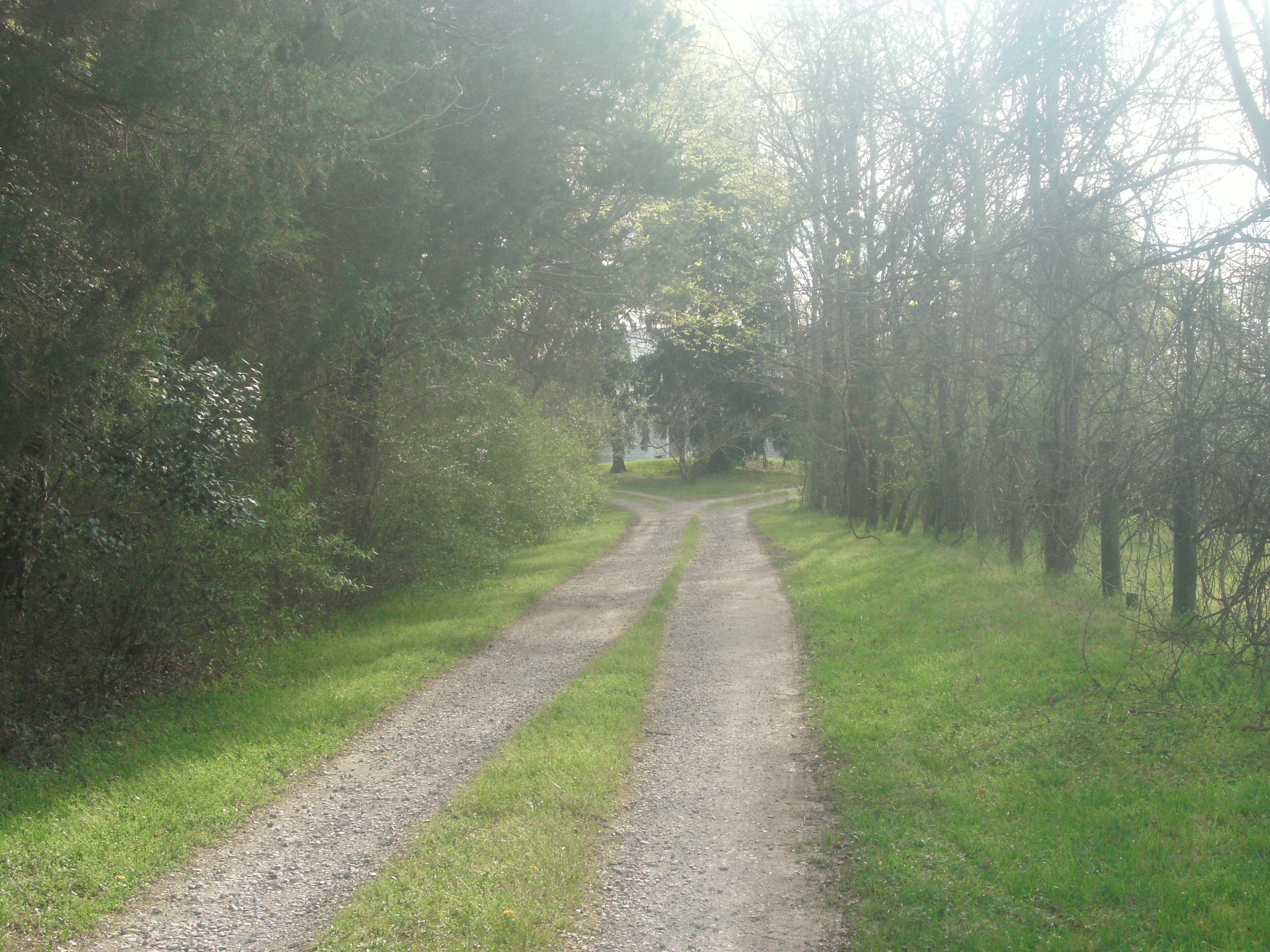 Oak Hill